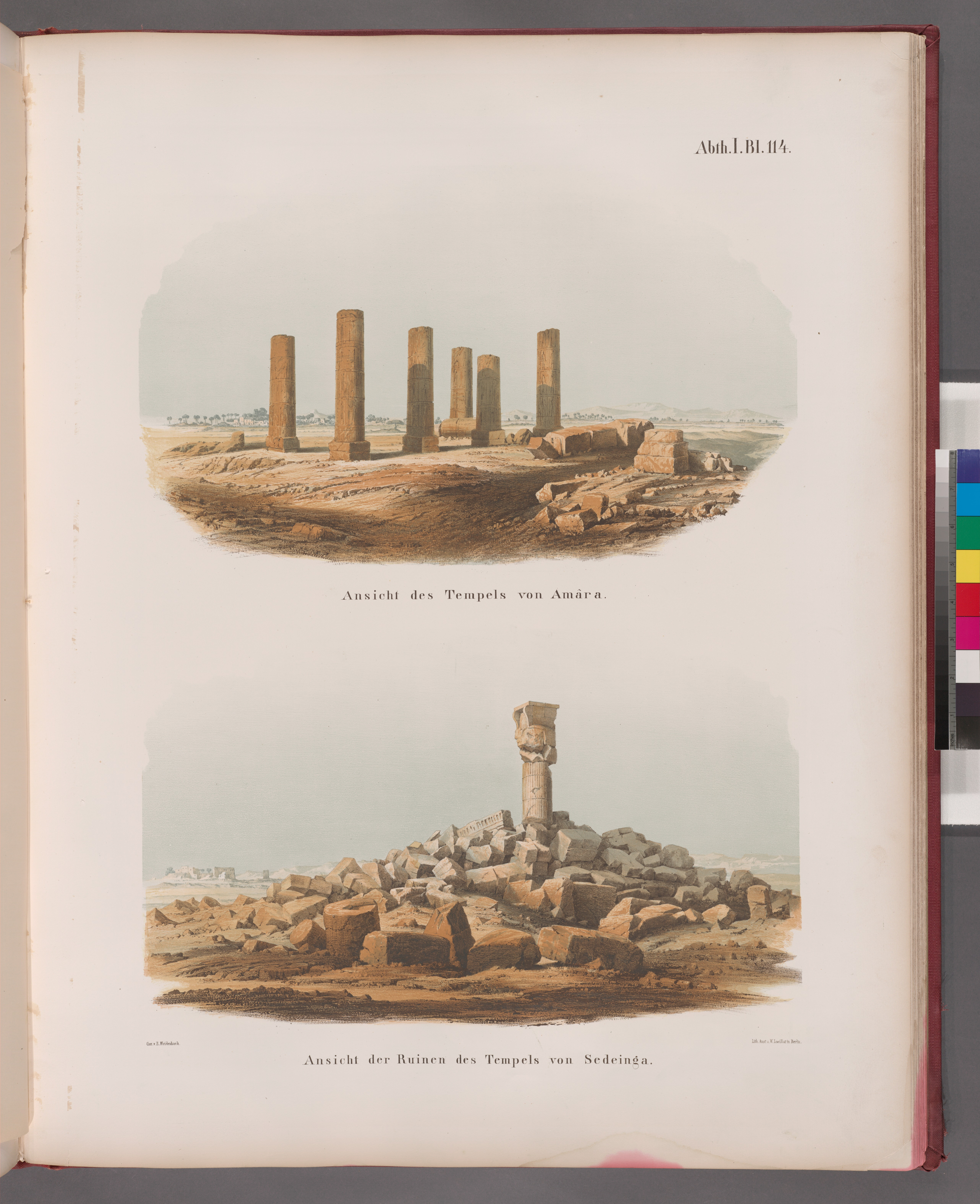 Ansicht des Tempels von Amâra; Ansicht der Ruinen des Tempels von Sedeinga.